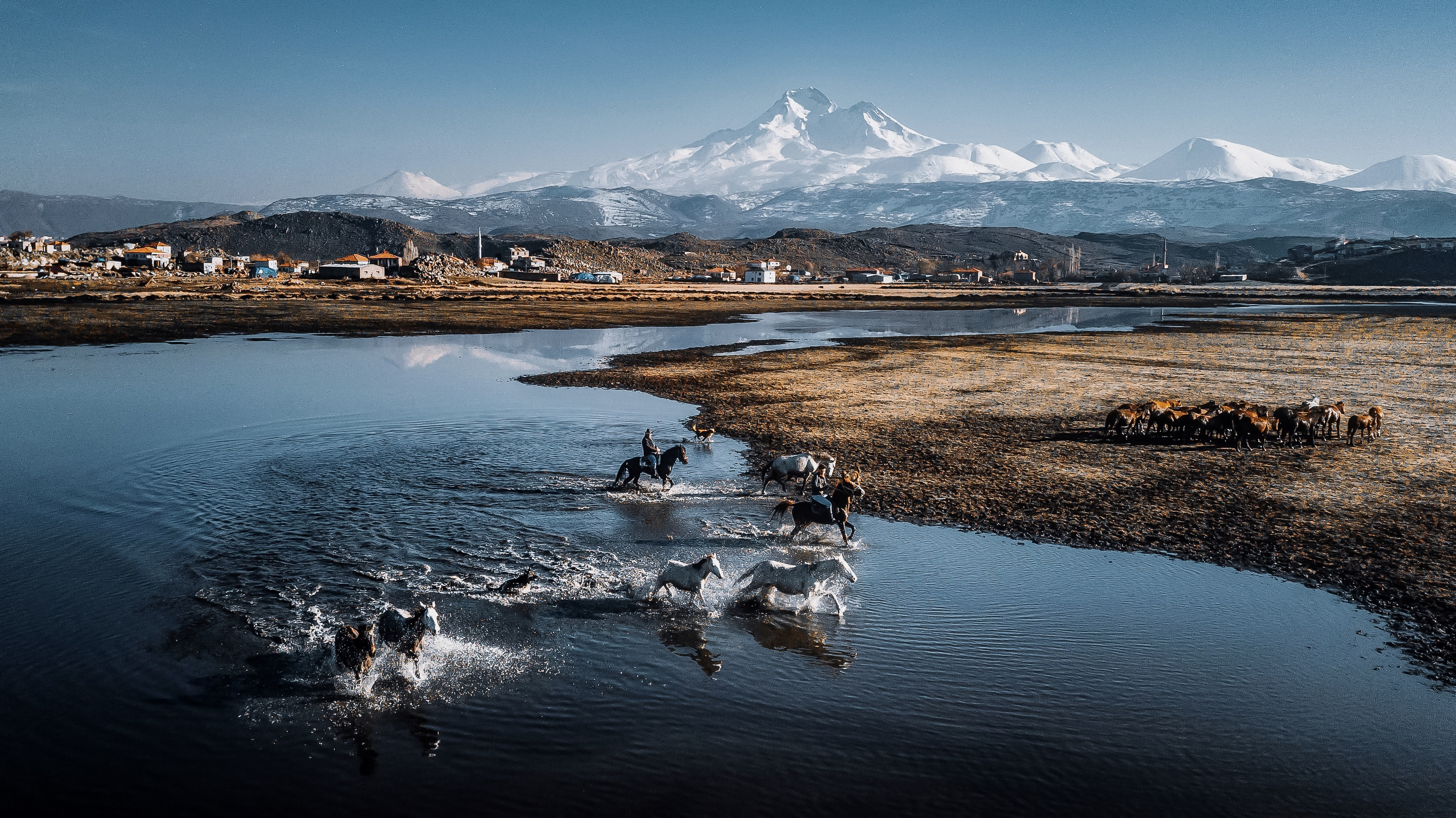 Runing wild horses and the rural life on the doorstep of 5th highest peak of Turkey called Erciyes mountain(3917). I always wanted to visit this place, so i made a tour and went to that rural life.it was wetland so that is why the ground was so muggy and slippery.it was fun to fly my drone over that wilderness.This area is over between Mount Erciyes Sindelhöyük and Cappadocia in the middle of Turkey. This land is one of the first settlements in human history.